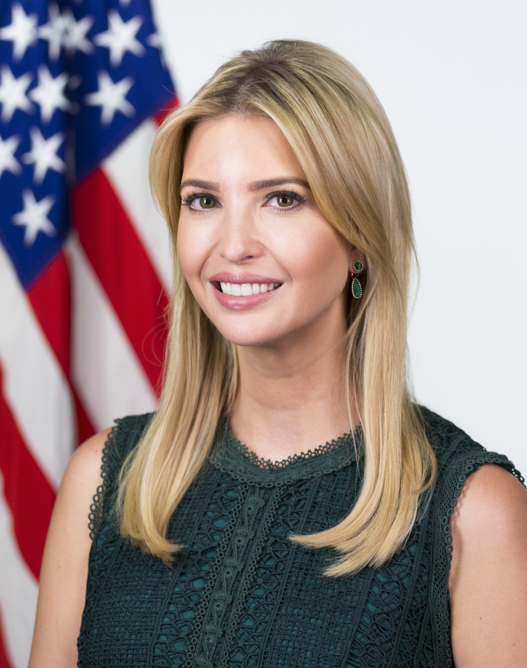 Ivanka Trump official White House photo